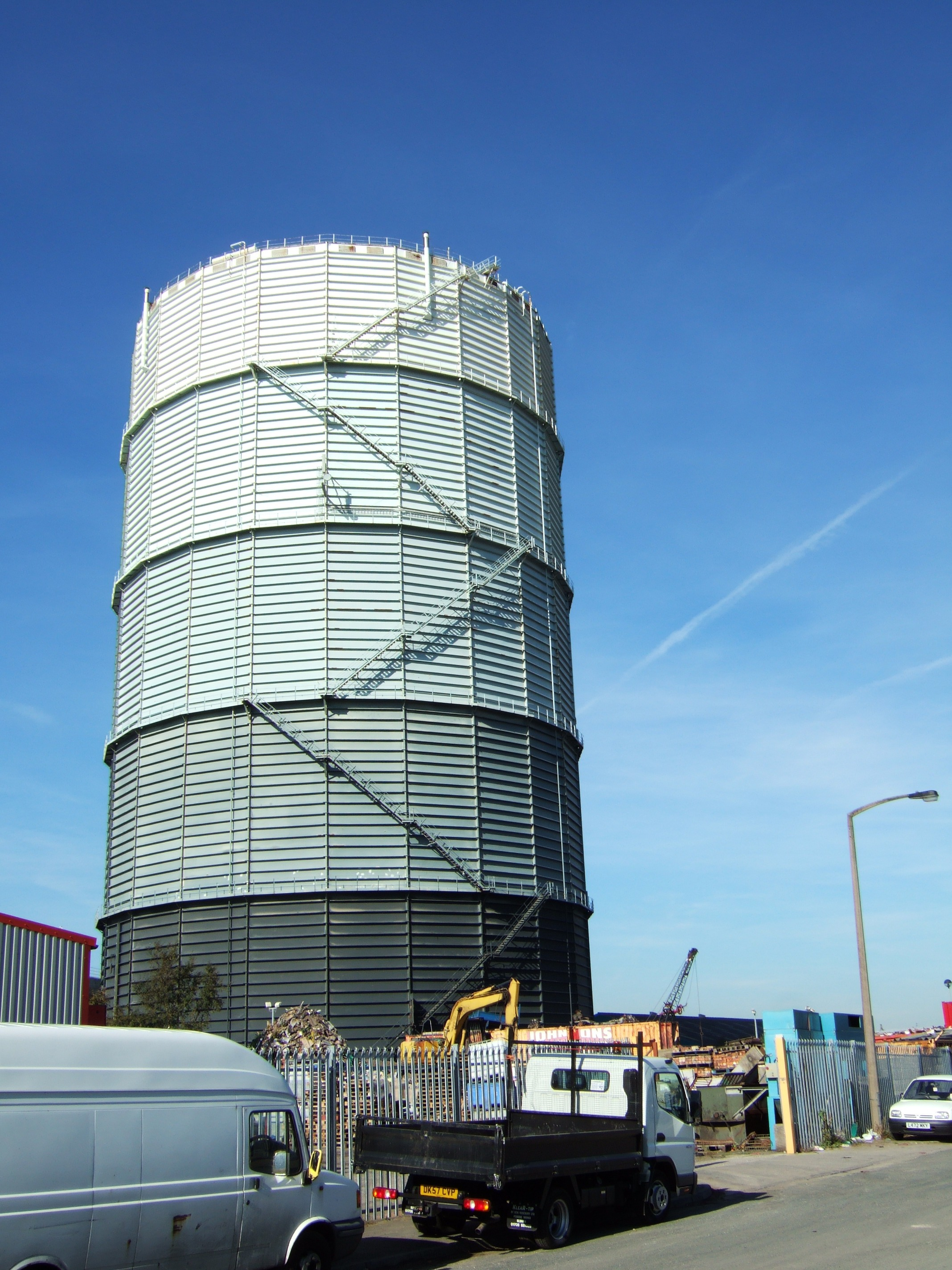 The same view on 2009 December 26 The Southport gas holder looking northwest from grid reference SD364167 in Crowland Close, Blowick, Southport, Lancashire.